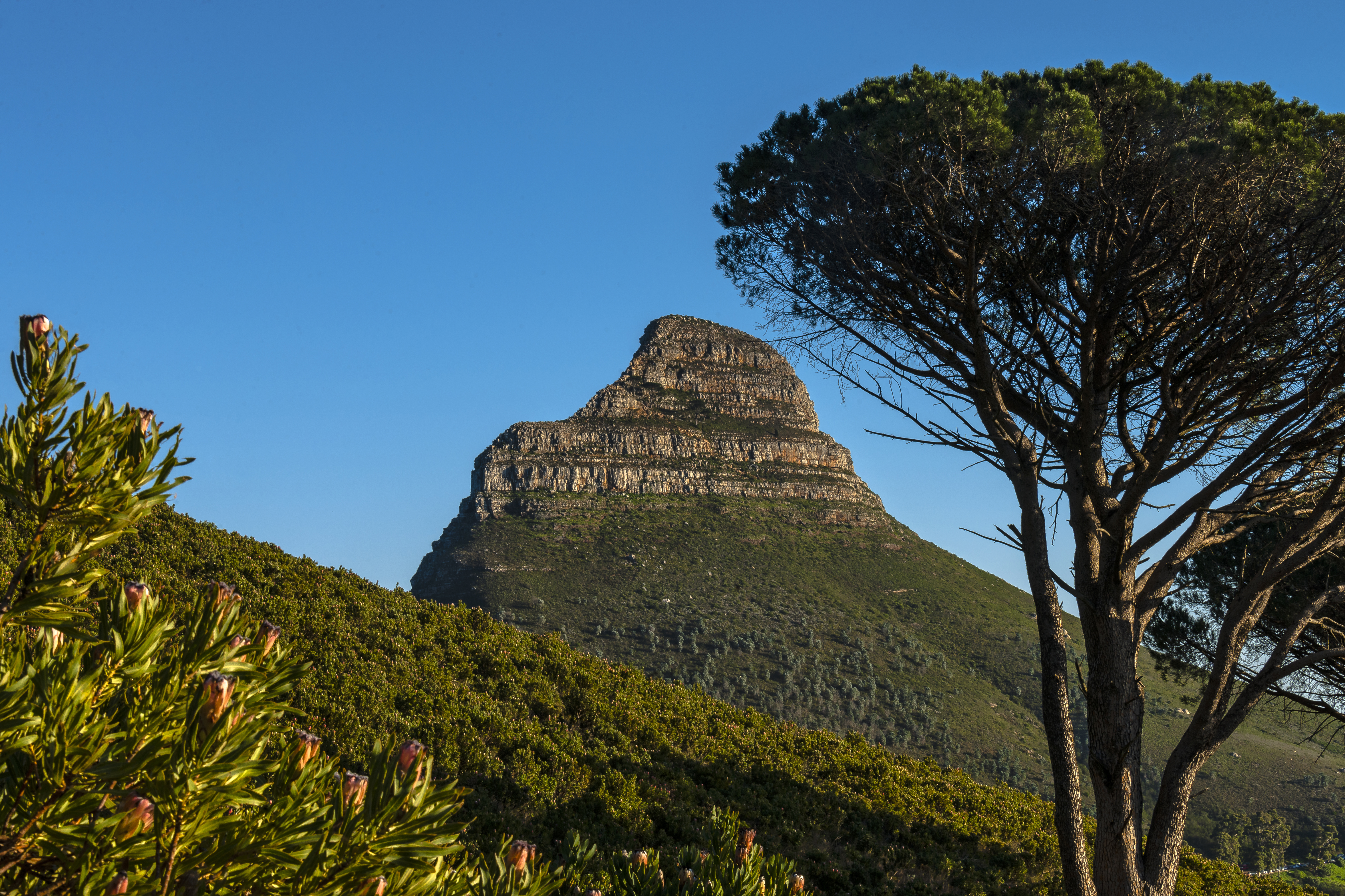 A view toward Lion's Head from the lower reaches of the Table Mountain trail, near the cableway base station.